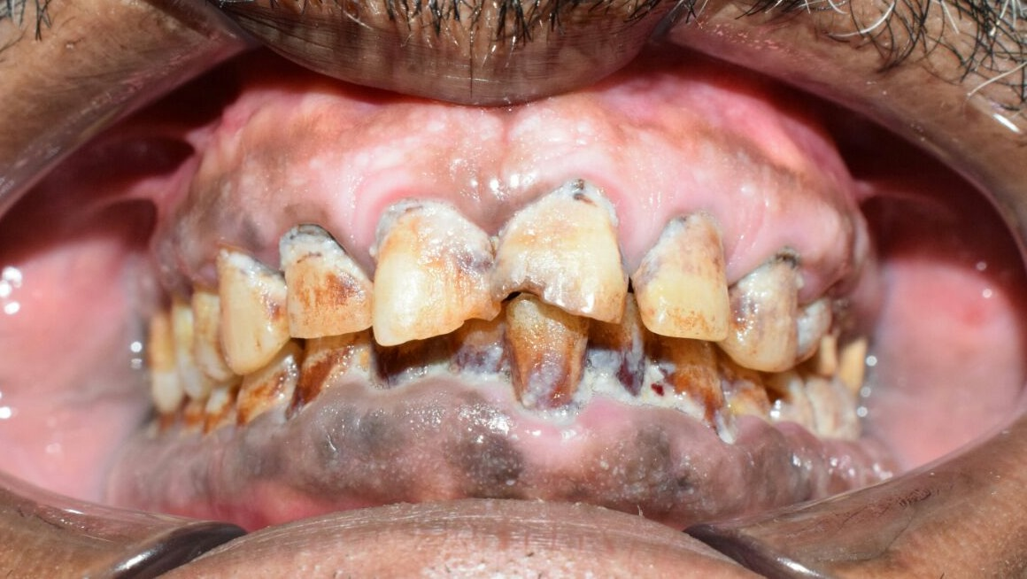 Smoker's melanosis in a patient consuming 2 packs of cigarette per day. تصبغ اللثة في أحد المرضى نتيجة التدخين المستمر بمعدل علبتين يوميا La pigmentation gingivale chez un fumeur